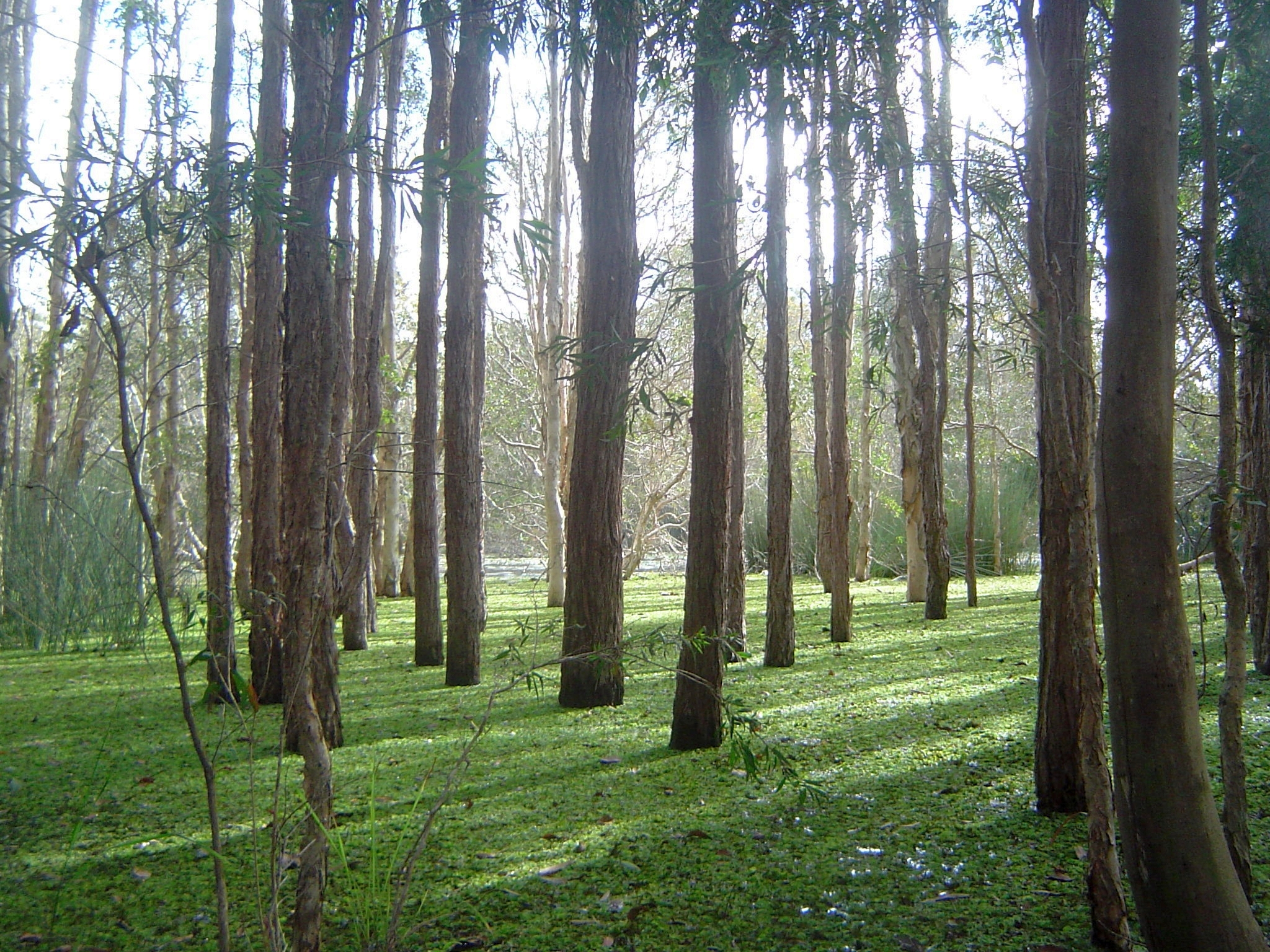 Photo of trees surrounding Leslie Harrison Dam at JC Trotter Memorial Park. Dam capacity was at 100%.